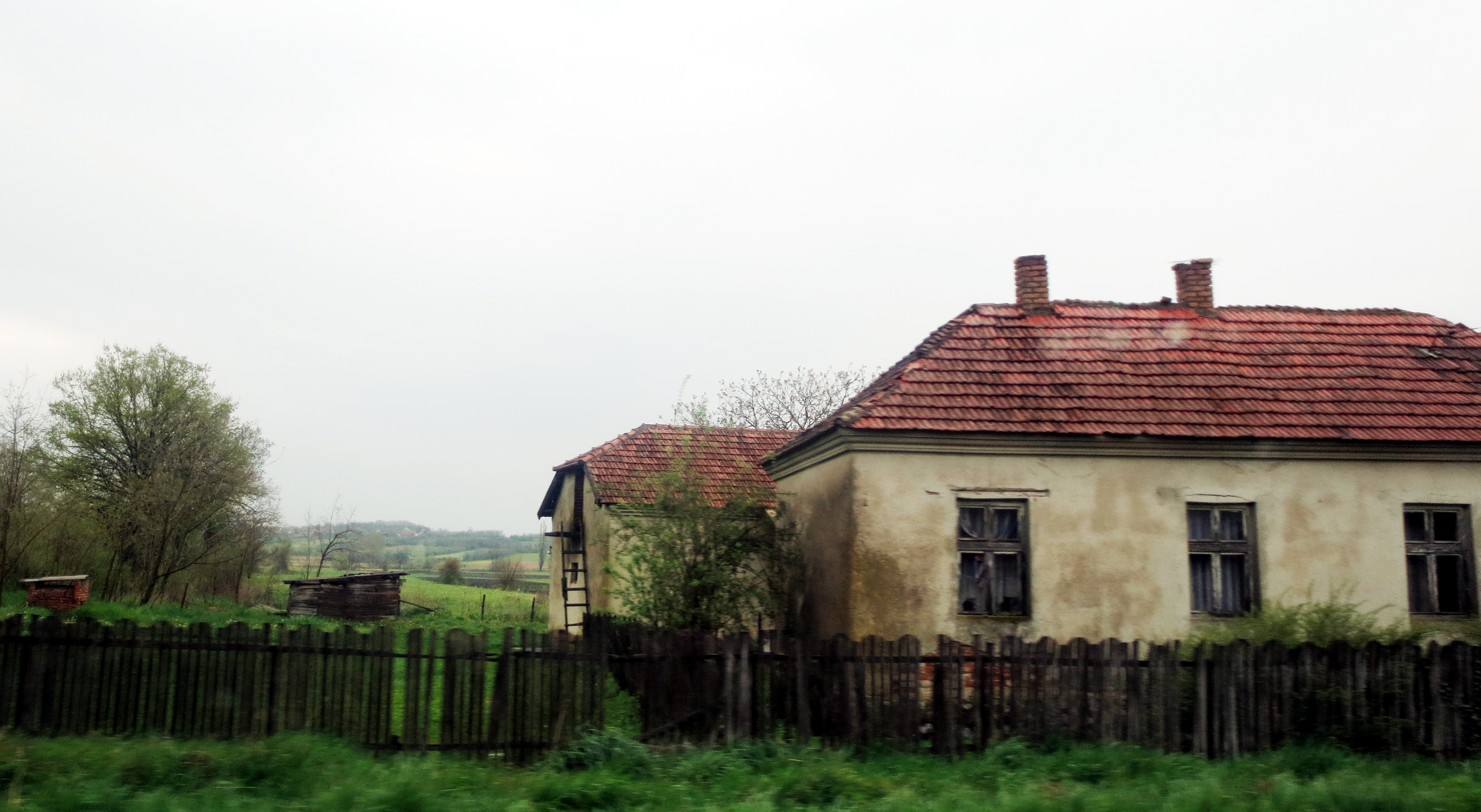 Image from the municipality of Topola, southeast of Beograd - Serbia.